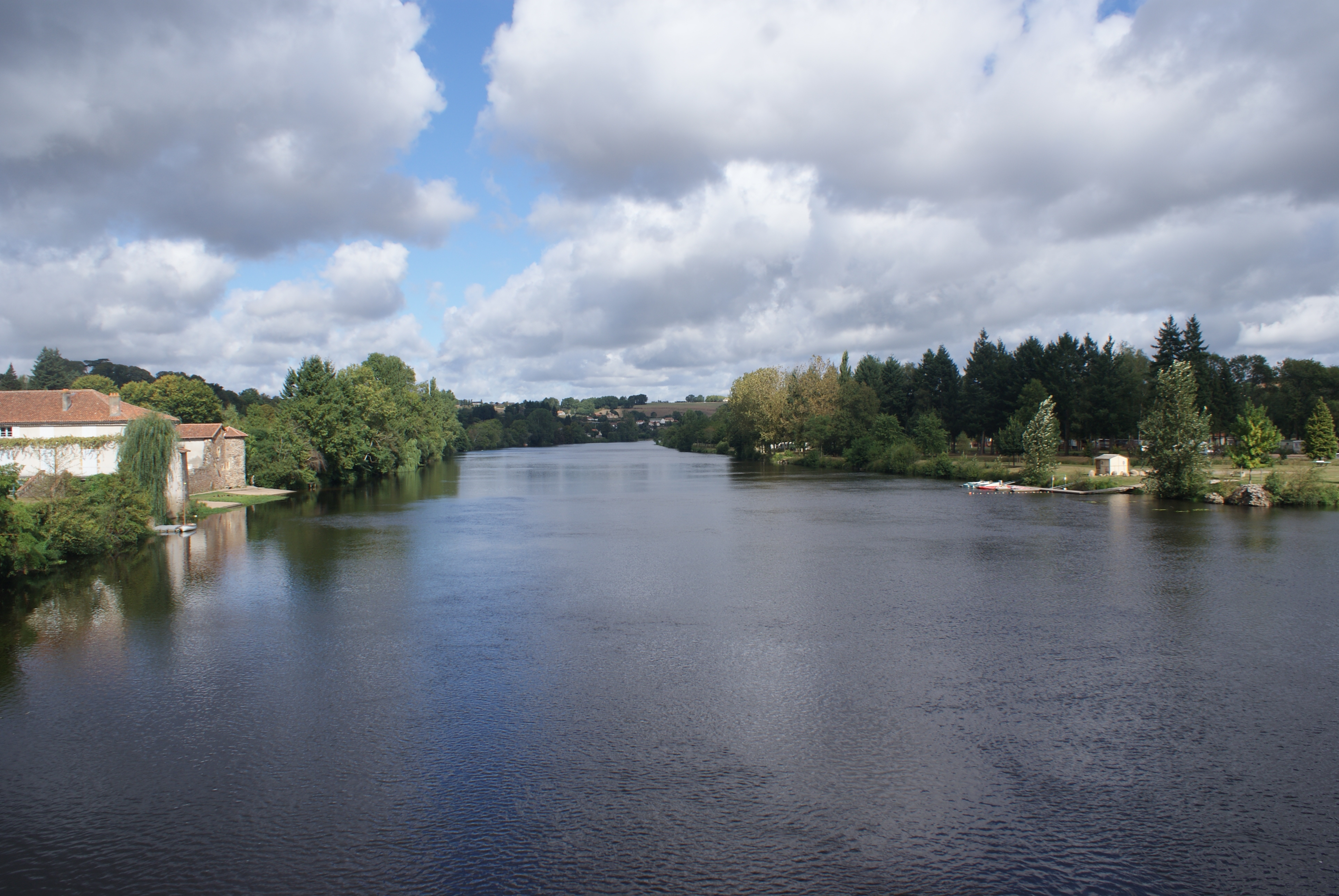 Photo taken from Availles bridge looking up river to North